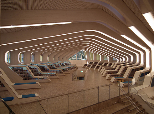 the interior of Vennesla public library, Norway. Architects: Helen & Hard. The library building was awarded the most prestigious Norwegian architecture prize in 2012: Statens byggeskikkpris